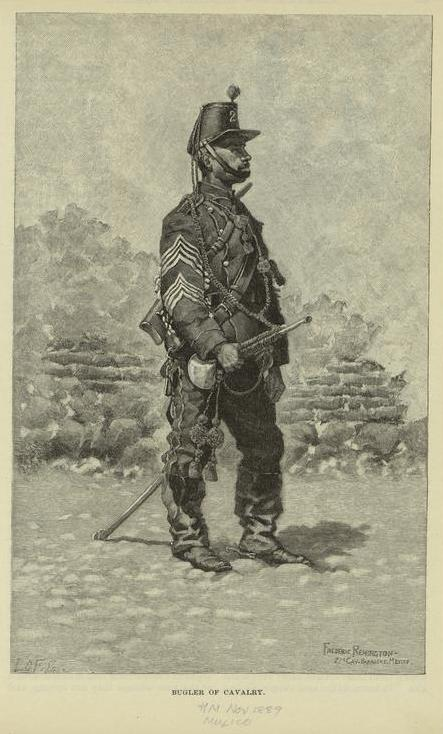 A bugler of cavalry in the Mexican Army.